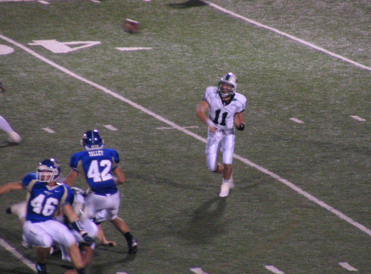 Riley Dodge (11) in action for Carroll High School, Southlake, Texas, in 2006.